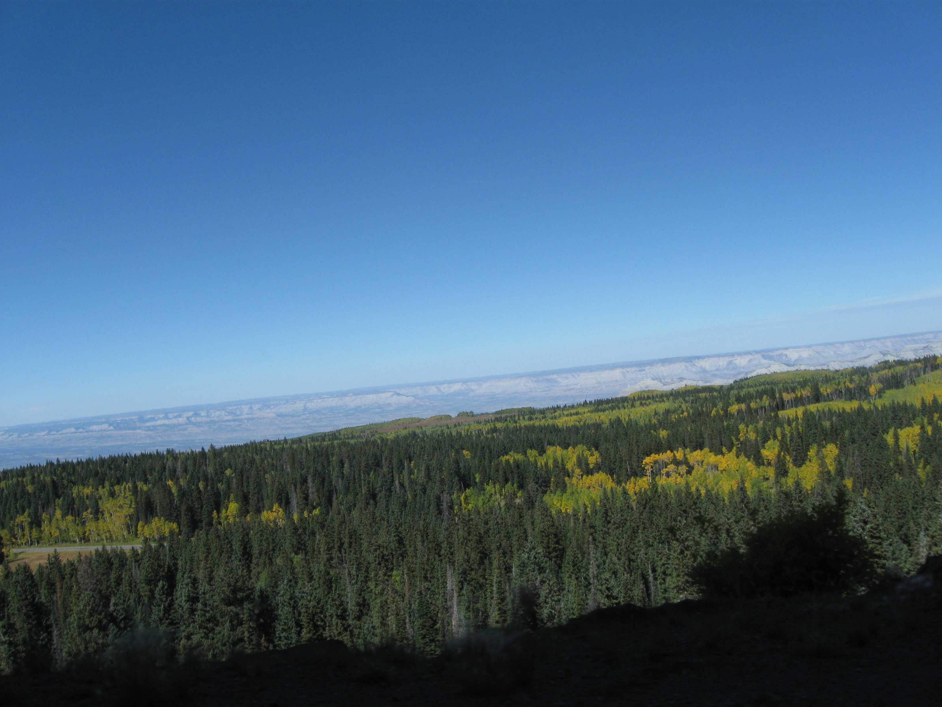 This is the view north from Grand Mesa, Colorado. September 2011.